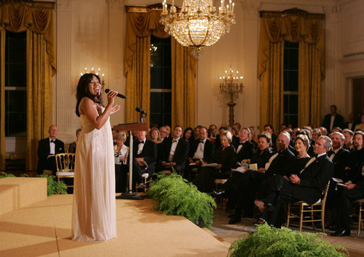 President George W. Bush, Mrs. Laura Bush and guests listen to singer Melinda Doolittle perform Tuesday evening, November 13, 2007 in the East Room of the White House, during a social dinner in honor of America's Promise-The Alliance for Youth.